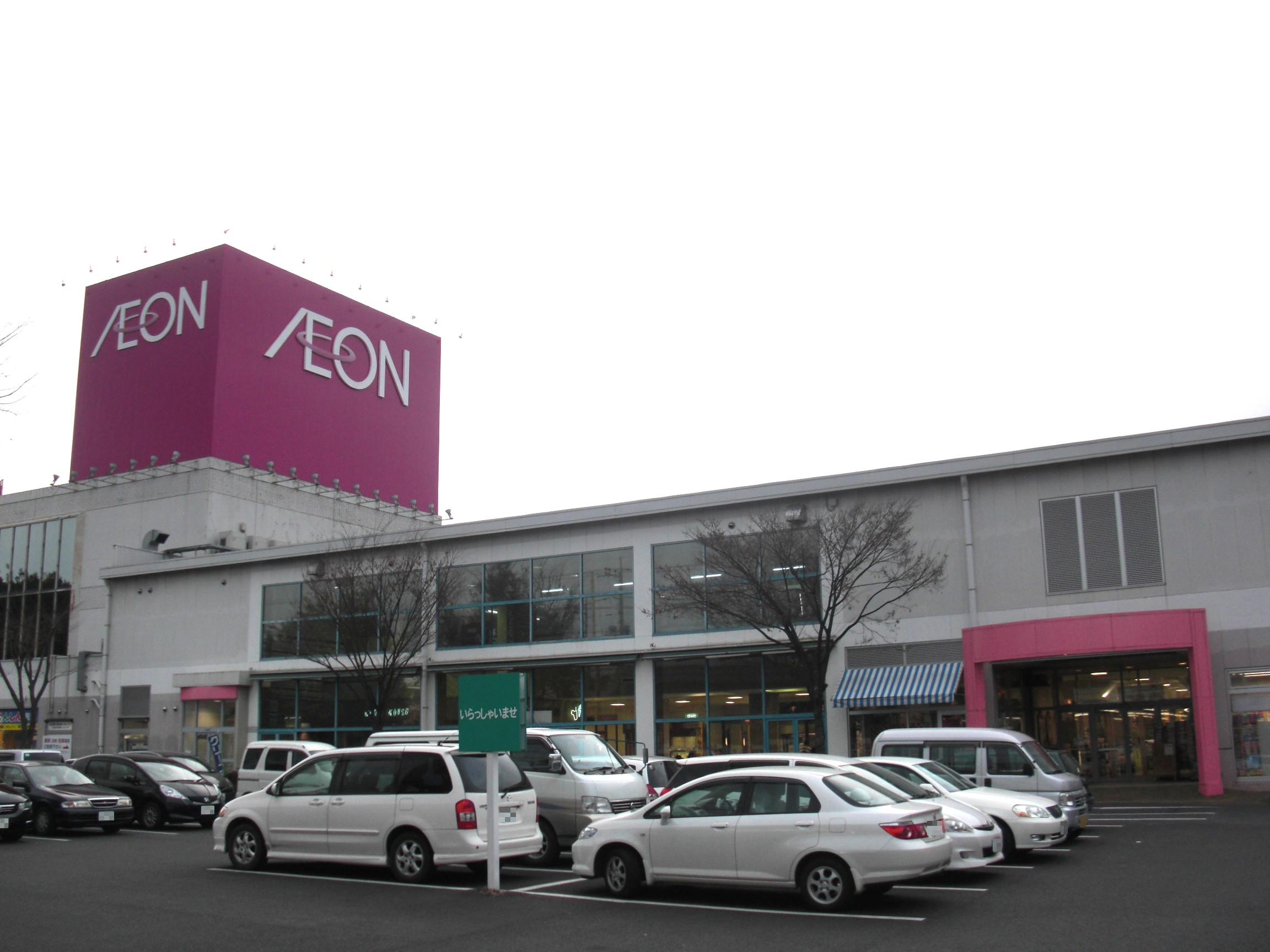 This is the Ishioka shopping center Palette in Ishioka, Ibaraki, Japan.